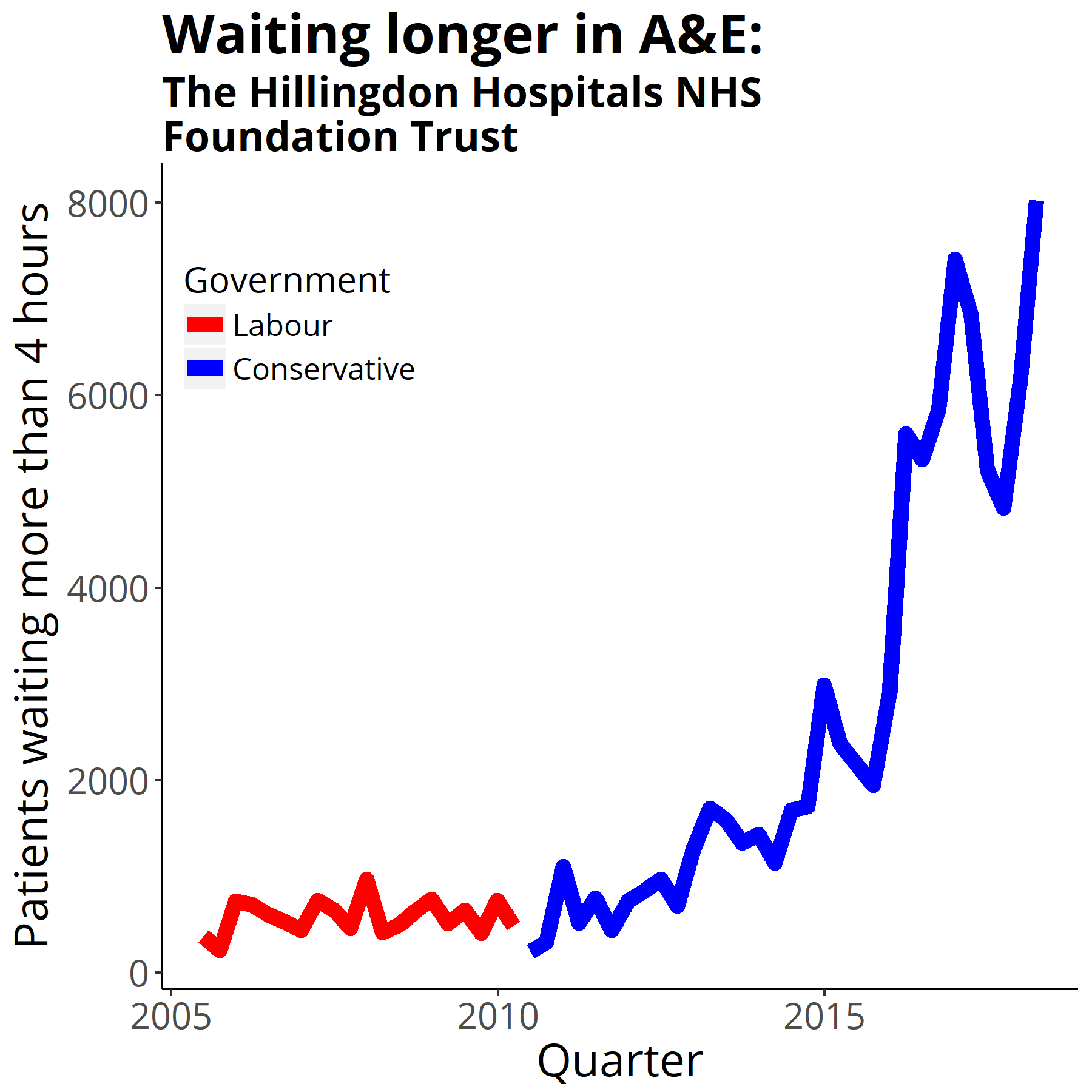 A&E performance 2005-18 Data from